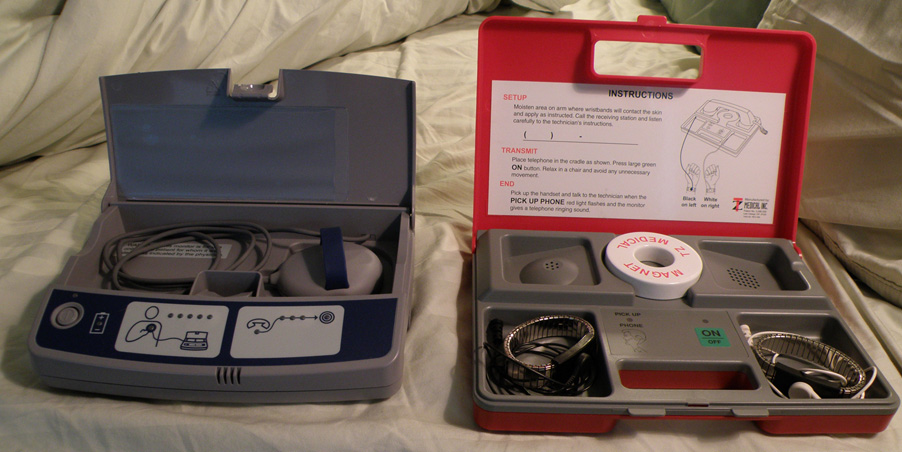 This image shows two different kinds of devices used for the remote monitoring of pacemaker patients. The one on the left, the gray device, is the more advanced device that actually communicates with the pacemaker through the peripherial that is placed over the pacemaker in the patient's chest. The device on the right is an older version of remote monitoring device. It requires the use of a telephone handset and the patient must put the bracelets on each wrist allowing the device to monitor heartbeat. The white round object is a high powered magnet that is used to trigger the pacemaker into beginning to pace allowing the person who is conducting the remote monitoring to determine if the pacemaker is still functioning correctly.